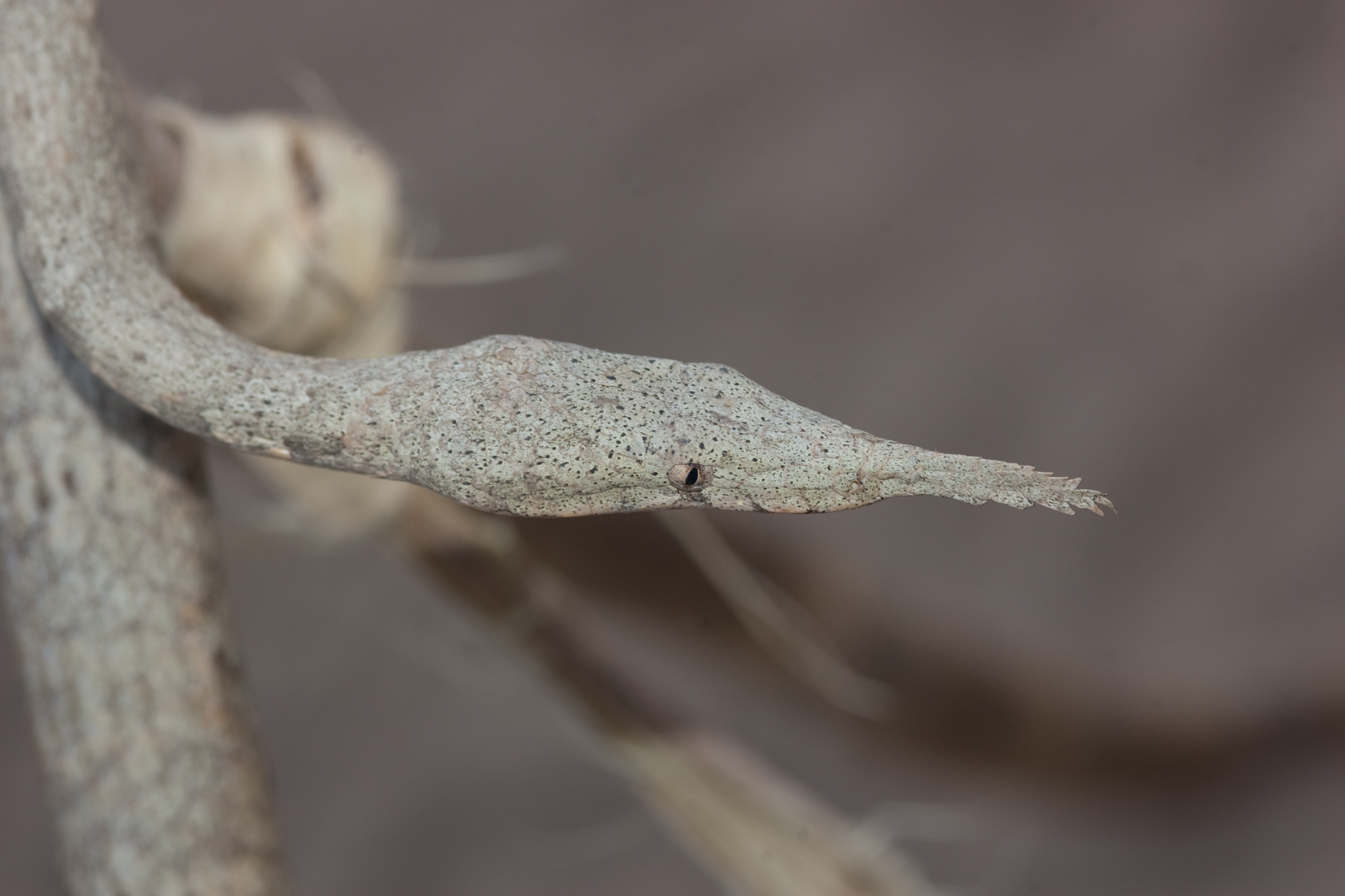 Female Madagascar Leaf-nosed Snake.